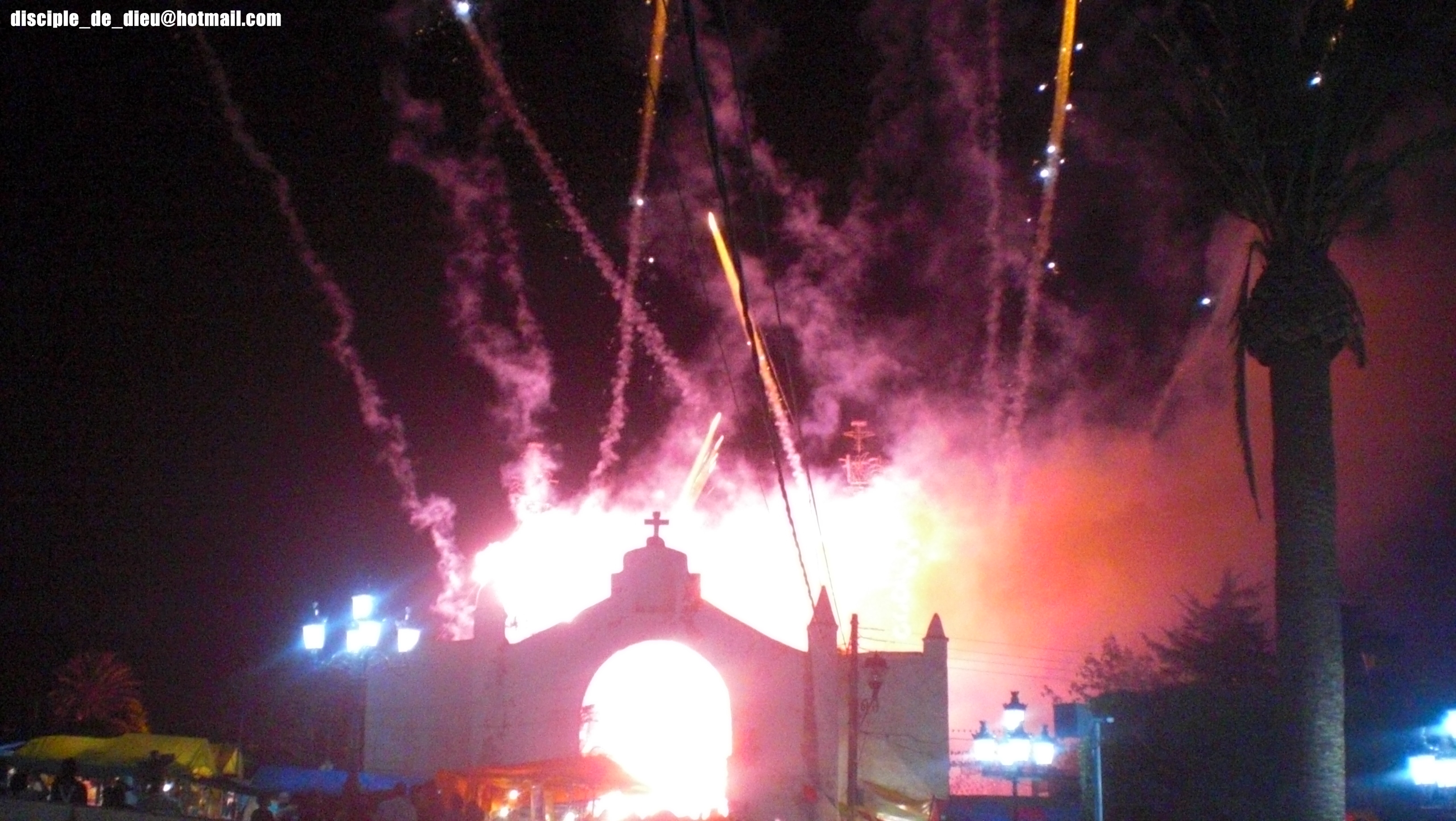 Feria Atlatlahucan